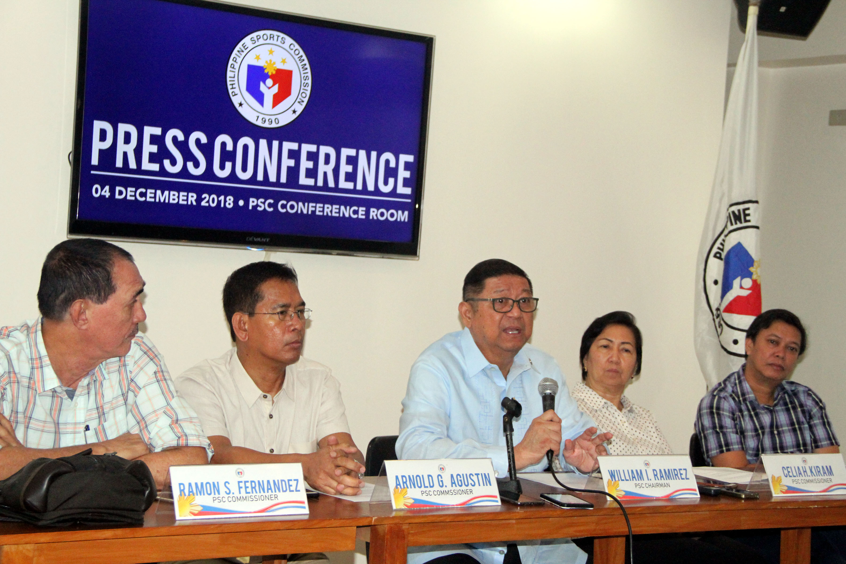 Philippine Sports Commission (PSC) chairman William "Butch" Ramirez (center) talks about the construction of the Philippine Sports Training Center in Pangasinan during a press conference at the PSC building inside the Rizal Memorial Sports Complex in Malate, Manila on Tuesday (December 4, 2018).